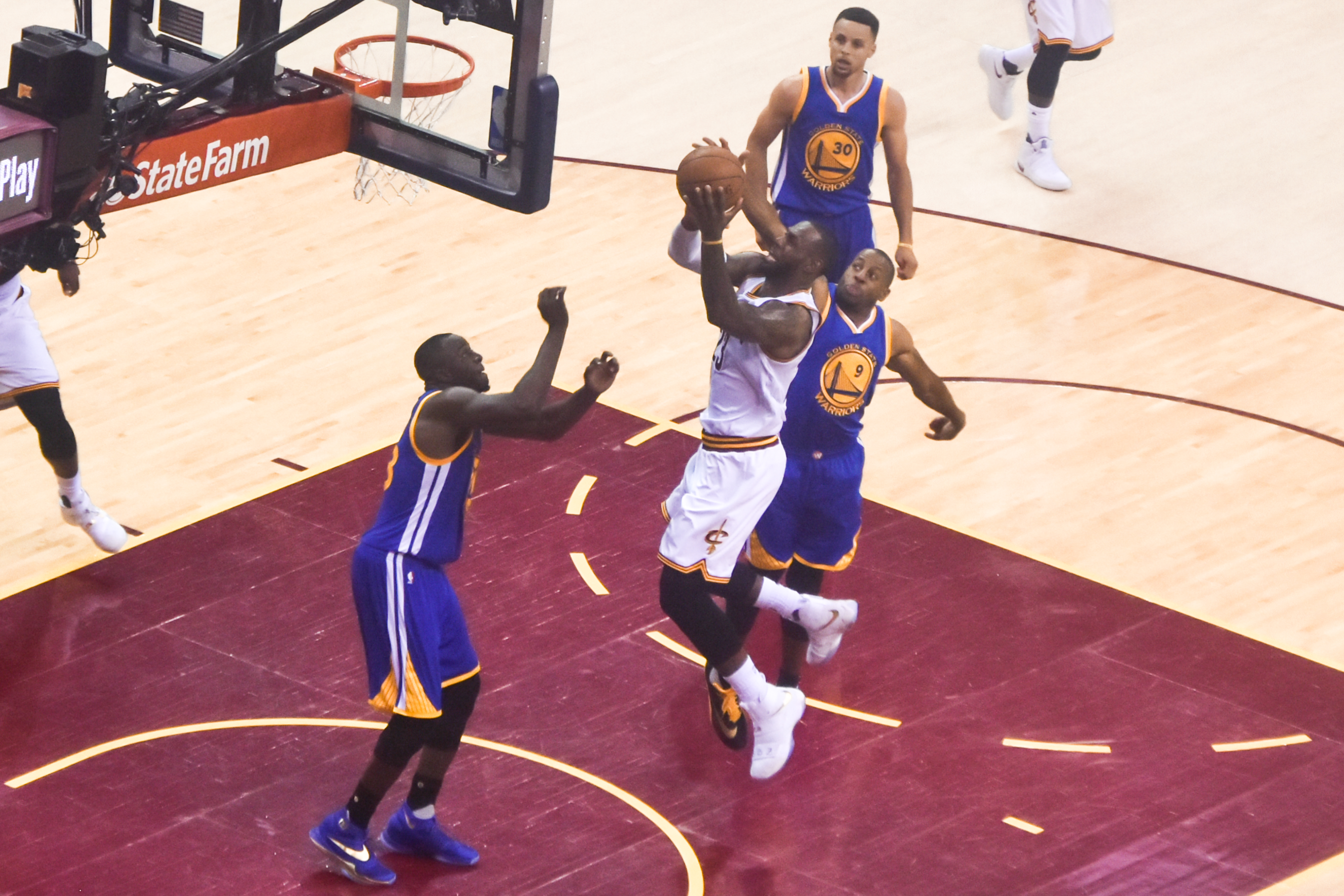 Lebrun basket warriors